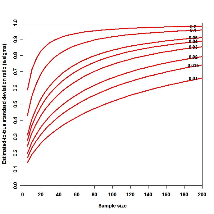 Graph of bias in estimated standard deviation vs. alpha and N.